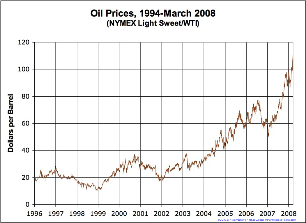 Ten-day moving average of prices of NYMEX Light Sweet Crude, taken from data at the New Mexico Institute of Mining and Technology. Prices are nominal (not adjusted for inflation). See also thumb|left|NYMEX Light Sweet Crude Oil daily prices from 2005 to 2008-12-02 in US dollars File:Brent_Spot_monthly.svg